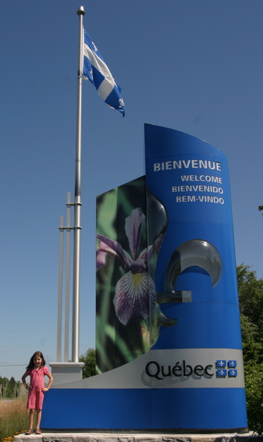 Quebec welcome sign at the Canada-U.S. border, welcoming travellers entering Quebec from Vermont in French, English, Spanish and Portuguese.